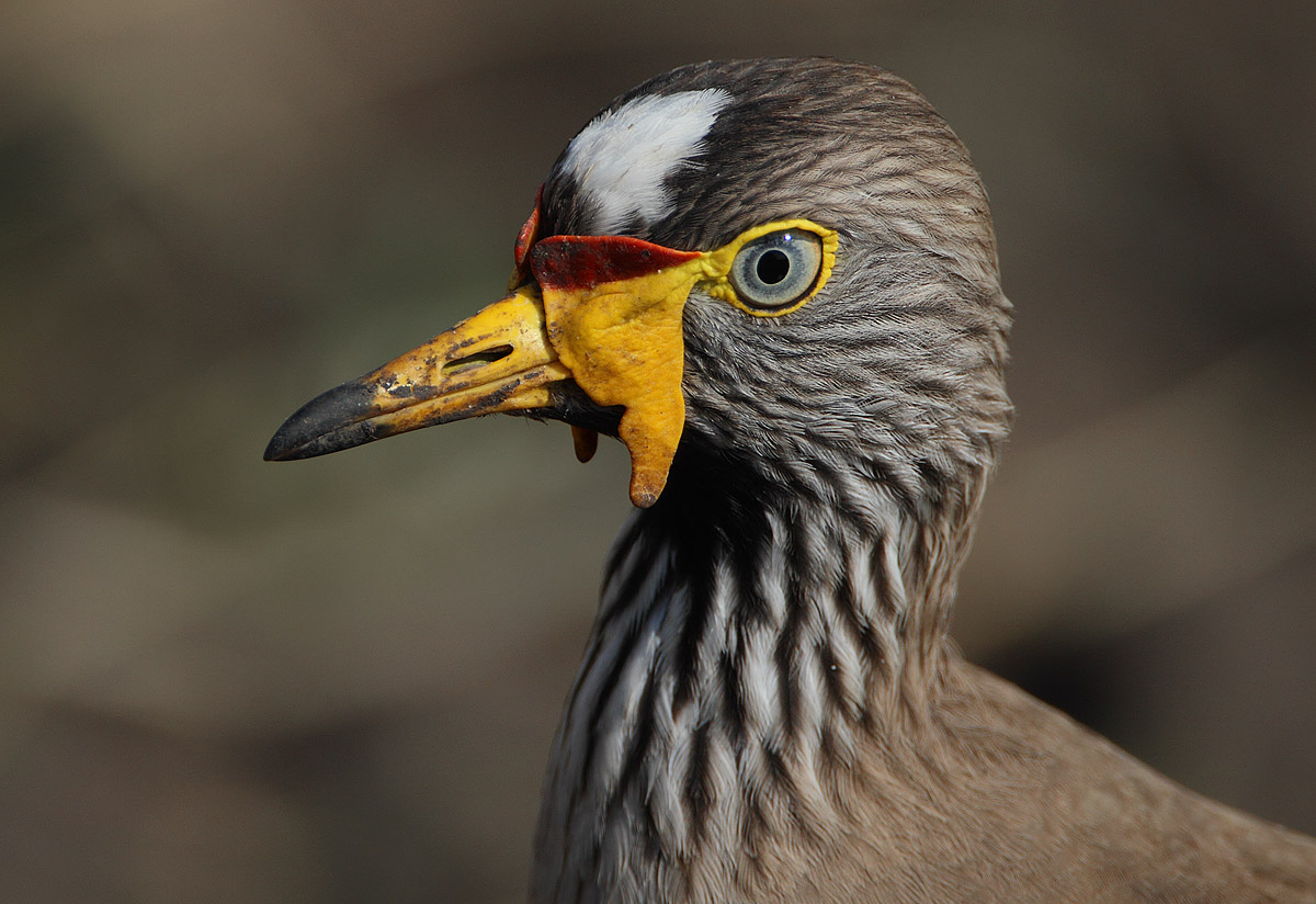 A African Wattled Lapwing in Rift Valley, Kenya.